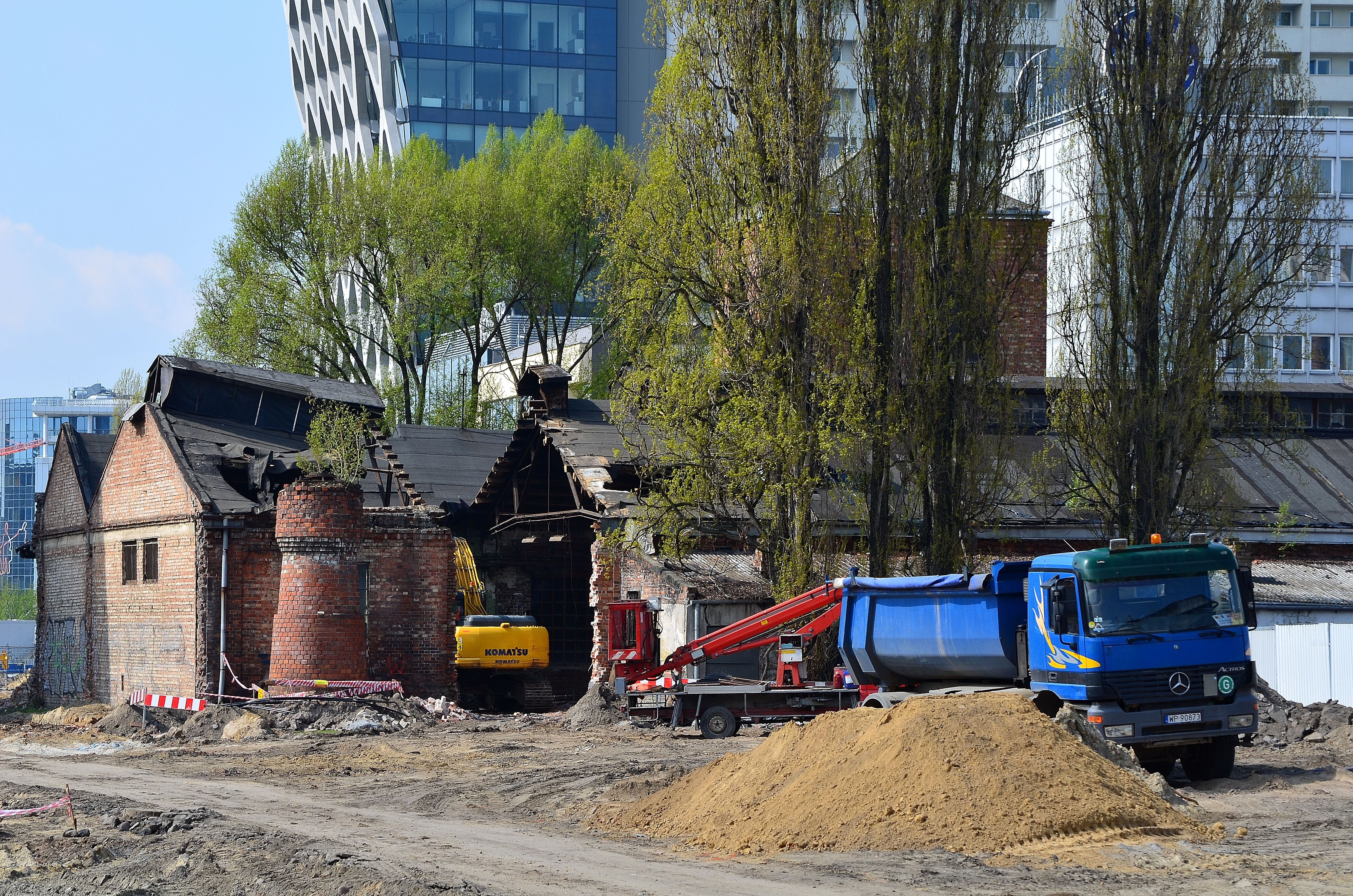 Partial demolition of one of the Norblin factory in Warsaw due to the widening of Prosta Street